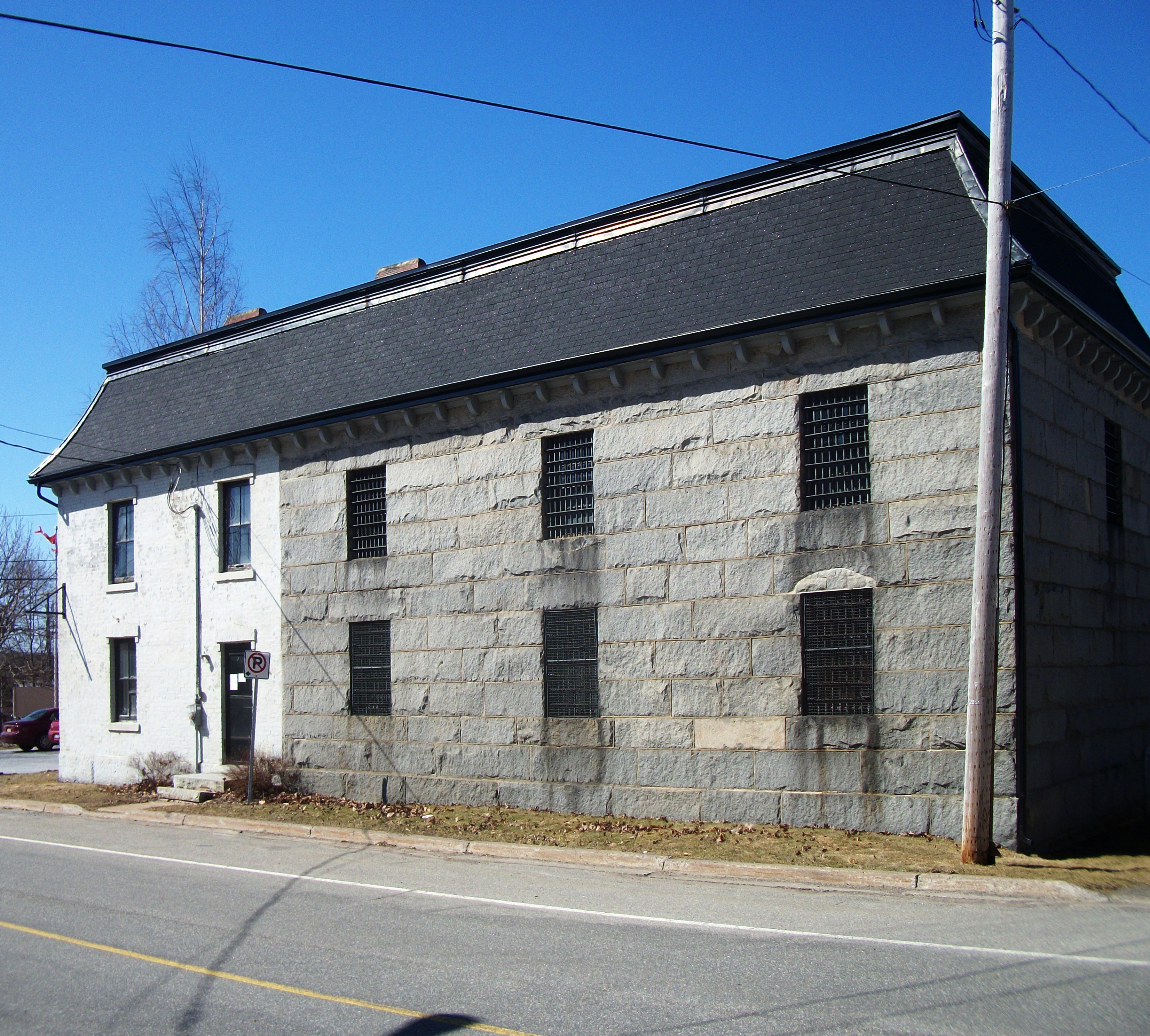 Nineteenth century gaol in Hampton, New Brunswick. When Hampton was made the shire town of Kings County instead of Kingston, the gaol was moved one block at a time across the ice and reconstructed in Hampton.